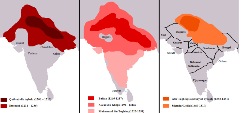 Delhi_History_Map